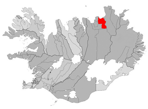 Based on Municipalities of Iceland.png.